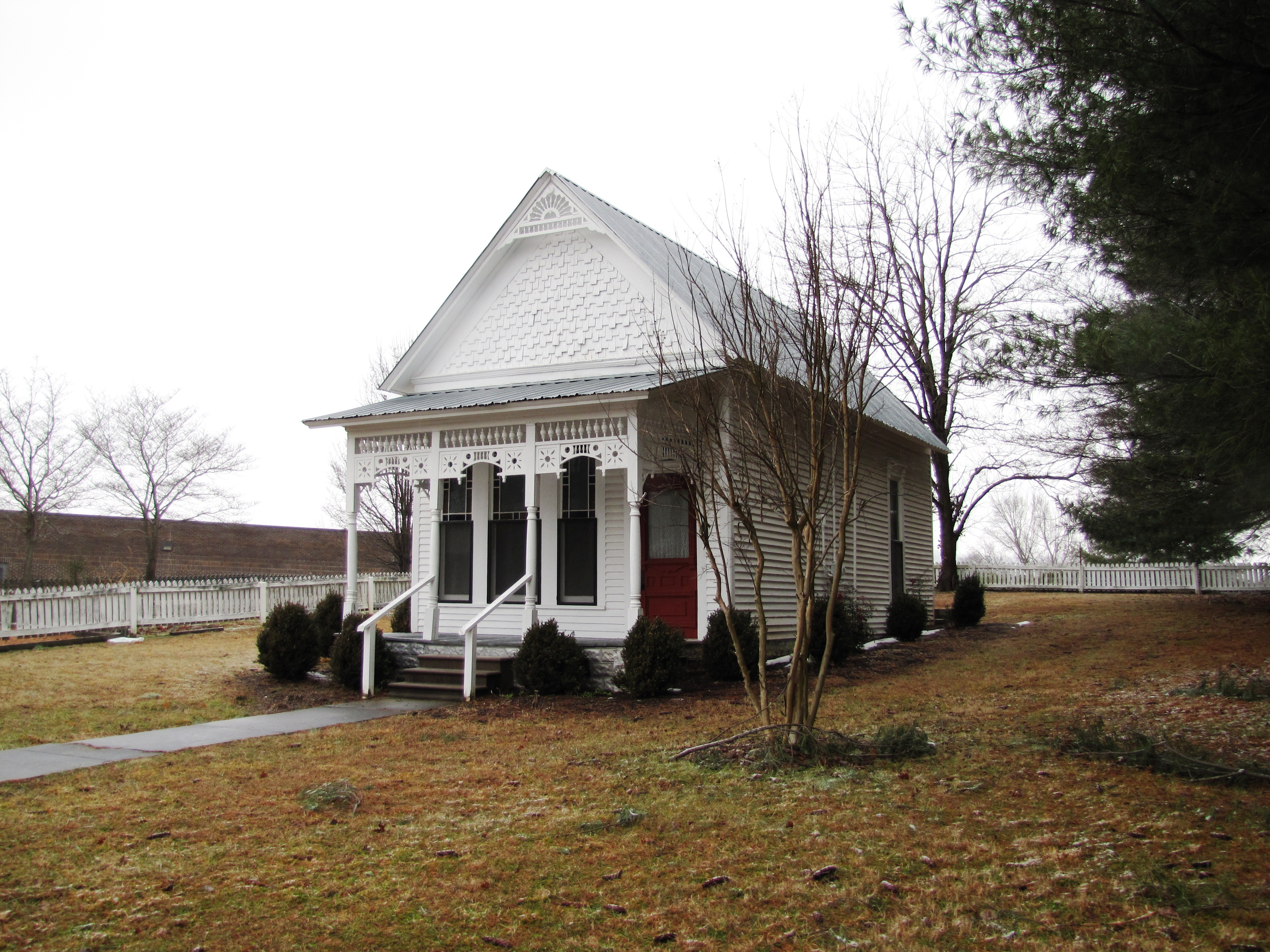 The law office building of Tennessee governor A. H. Roberts (gov. 1919-1921) in Livingston, Tennessee, USA. Originally located on the courthouse square, this building was relocated to the junction of Roberts Street and University Avenue, where Roberts lived from 1910 to 1920. The building is designed in a style of Victorian architecture known as Stick/Eastlake, which was common in the 19th century.